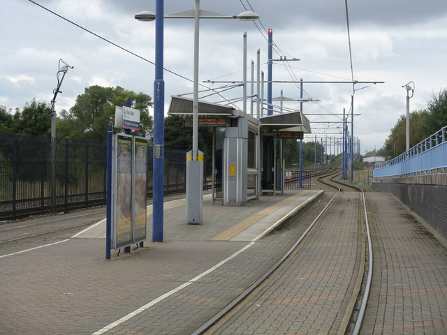 Winson Green Outer Circle tram stop Original description: Midland Metro - Winson Green station